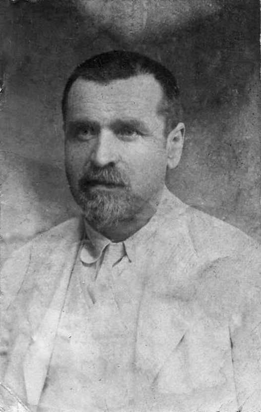 Bulgarian medical doctor Paraskev Stoyanov (1871-1940)